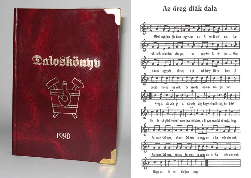 Songbook from University of Miskolc, Hungary